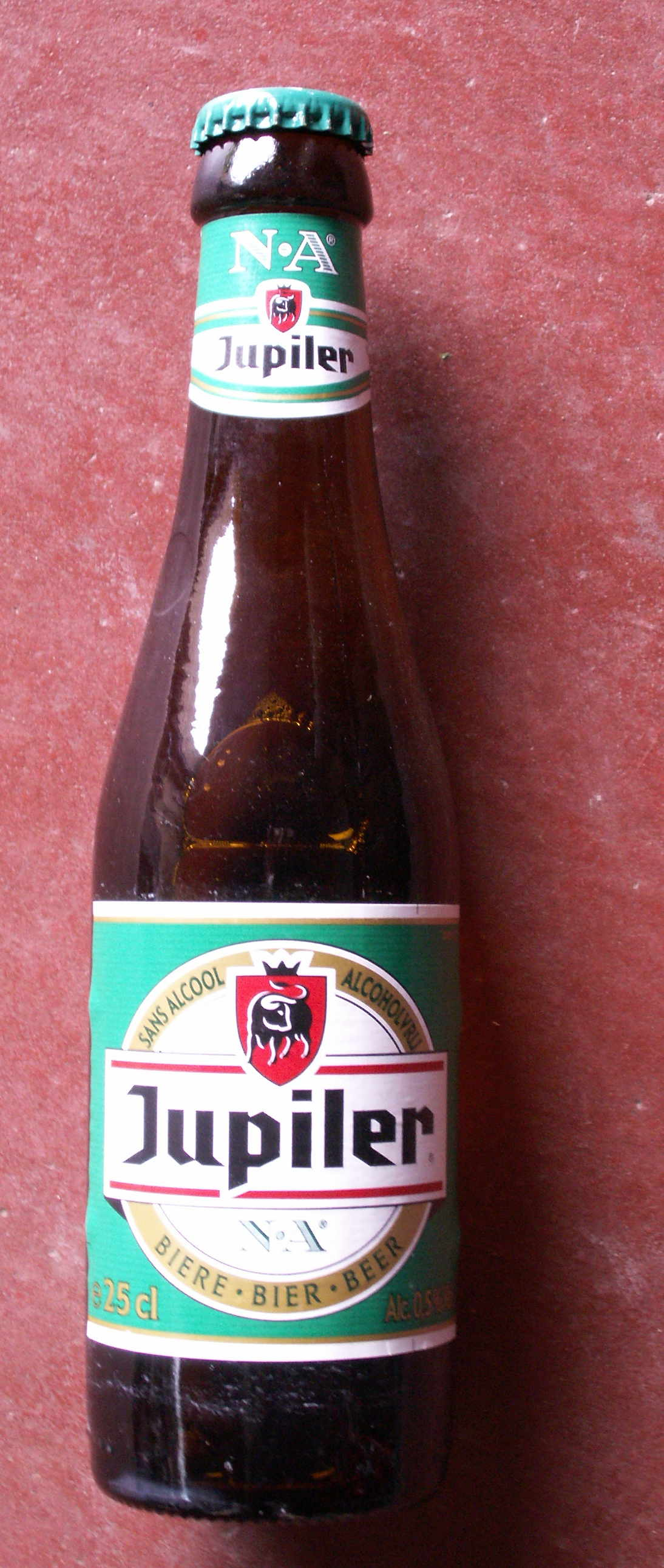 A picture of a bottle of "non-alcoholic" beer (despite the term, it still contains 0,5% ethanol by volume). Still, as the ethanol percentage is way lower (regular beers have 5%), the amount of calories in it are too way smaller. The brand shown here is Jupiler and this brand (along with the others commonly available in Belgium; namely Palm (Green), Tourtel and Kriek) is still compartively quite expensive compared to other (regular) beers. As such, brewing it yourself could prove a viable alternative.